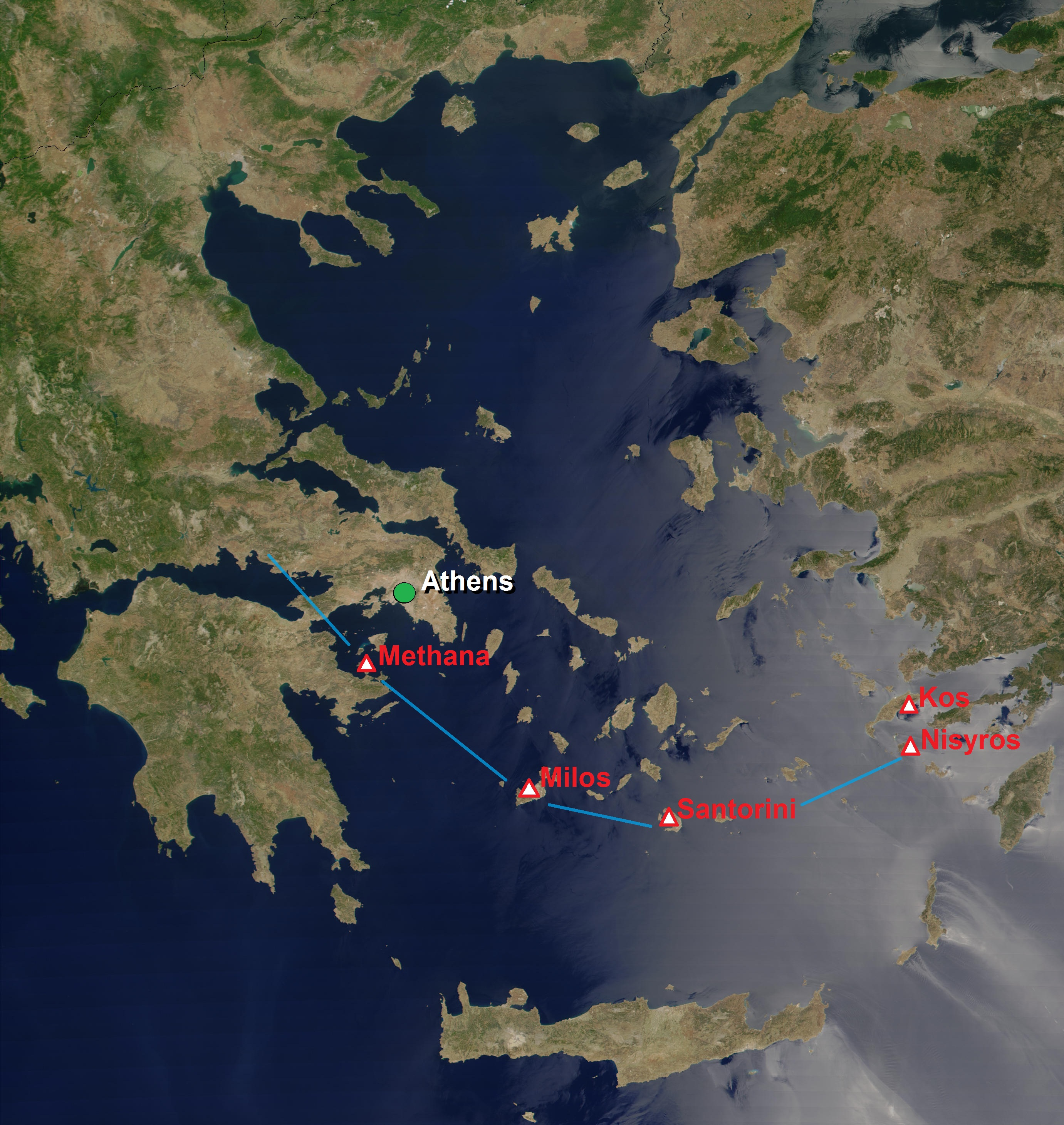 Southern Aegean Volcanic Arc, showing Athens, Methana, Santorini, Milos, Kos and Nisyros